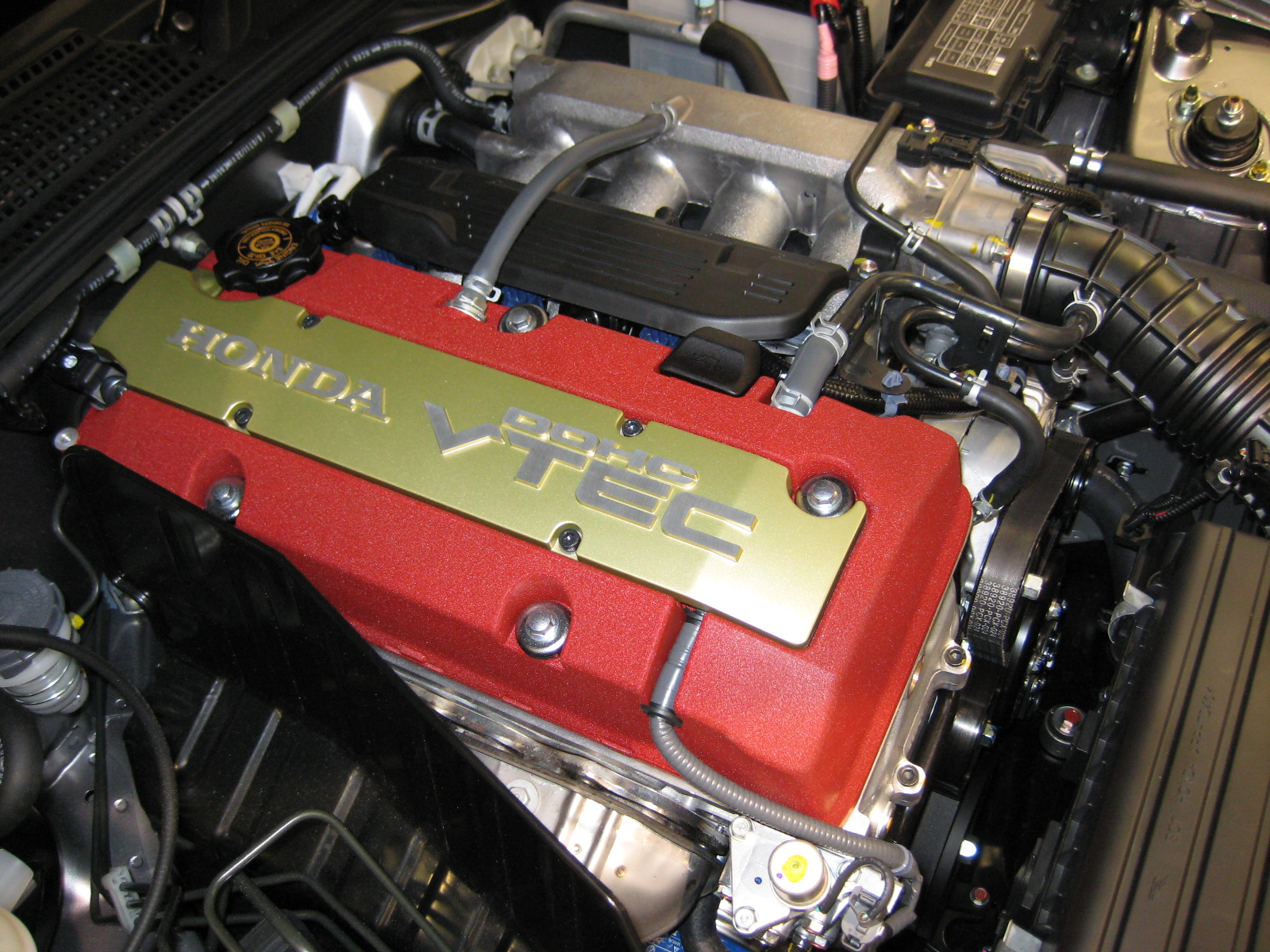 Honda F22C 2.2L DOHC VTEC Engine on 2007 Honda S2000 TypeS